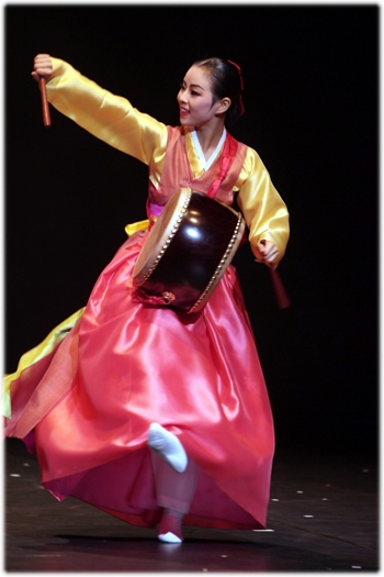 Traditional Korean dance by a performance group, Nanuri